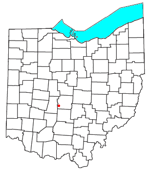 Locator map of the unincorporated community of Georgesville in Franklin County, Ohio, United States.